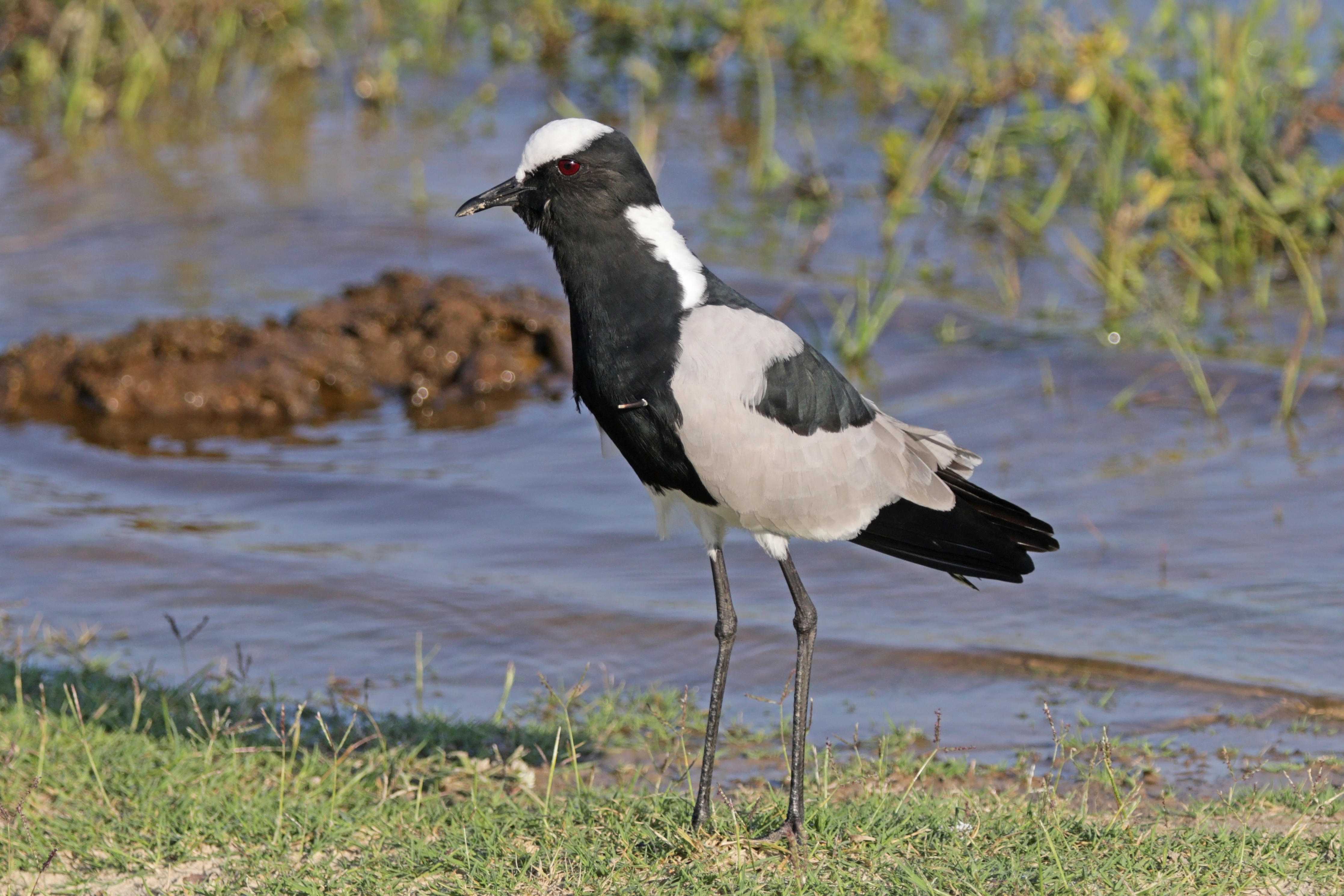 Blacksmith lapwing (Vanellus armatus), Chobe National Park, Botswana